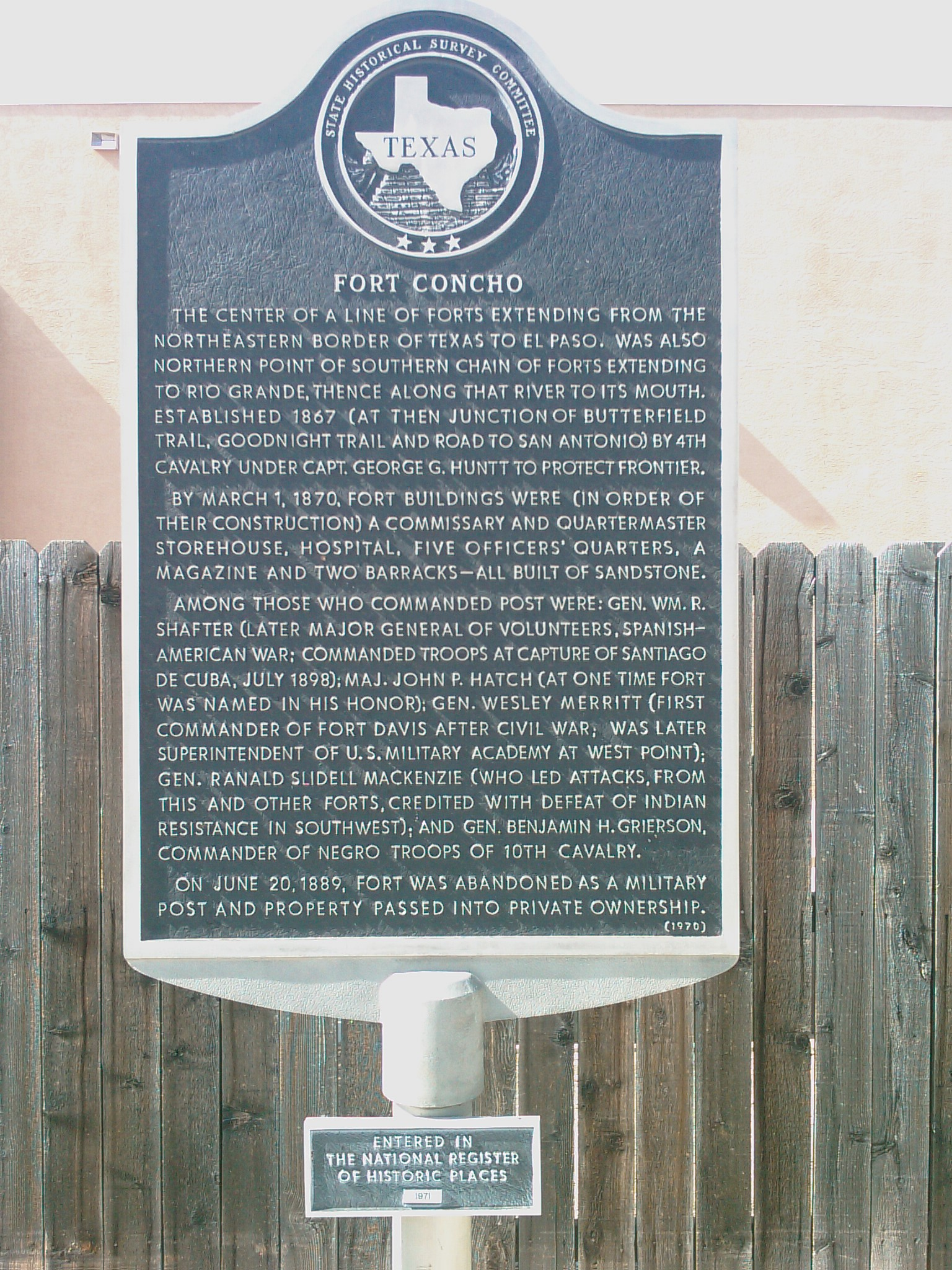 The plaque at fort concho describing its history.